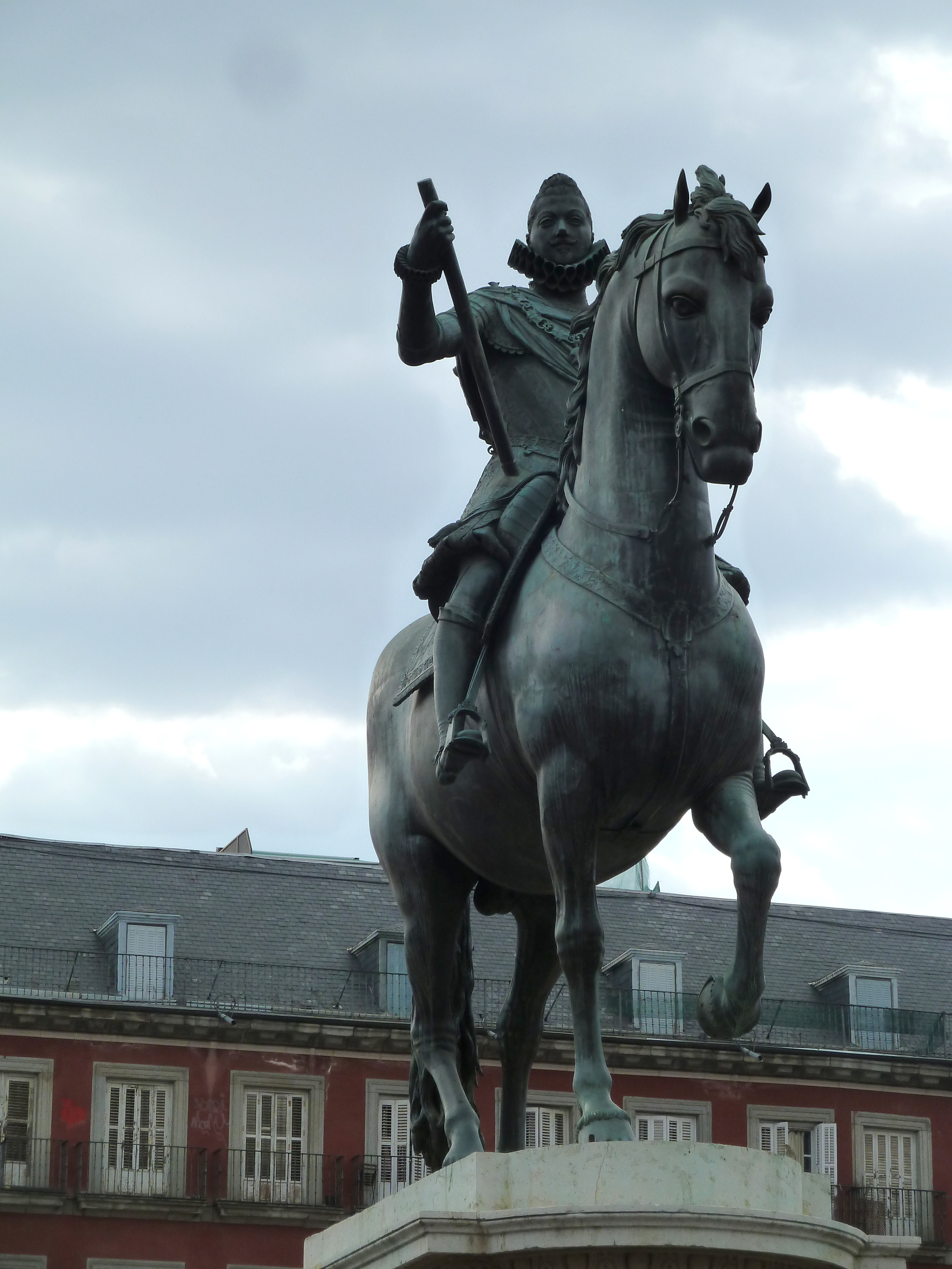 Staute of Philip III of Spain placed in Plaza Mayor of Madrid (the capital of Spain). This statue was initially made by the Italian sculptor Juan de Bolonia and was finished by his disciple Pietro Tacca in 1616.